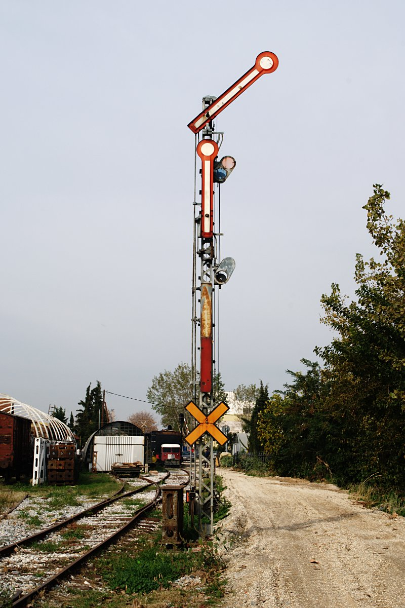 A semaphore of Hellenic State Railways, preseved at the Railway museum of Thessaloniki.